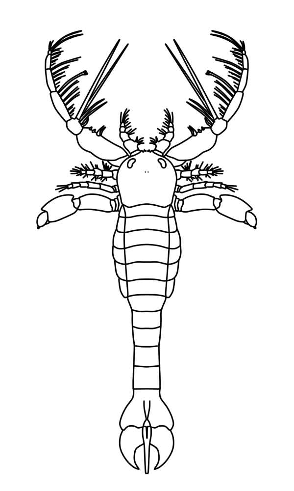 Restoration